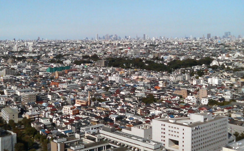 Scenery of Unoki seen from The River Place